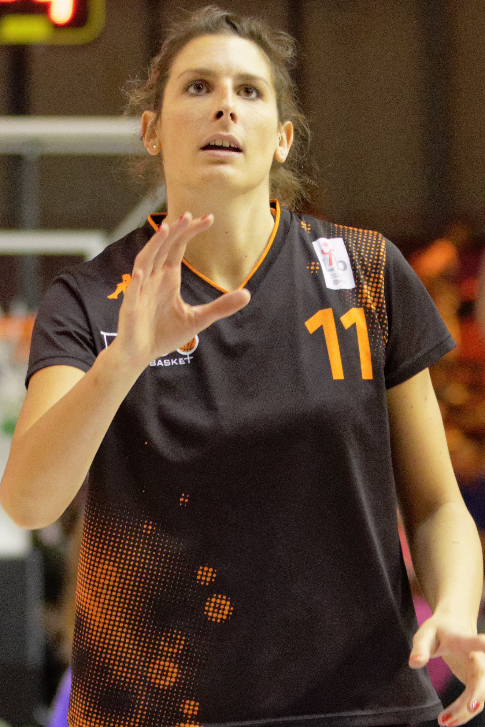 Final of the French Basketball Cup, Lattes-Montpellier vs Bourges, 2nd May 2015.